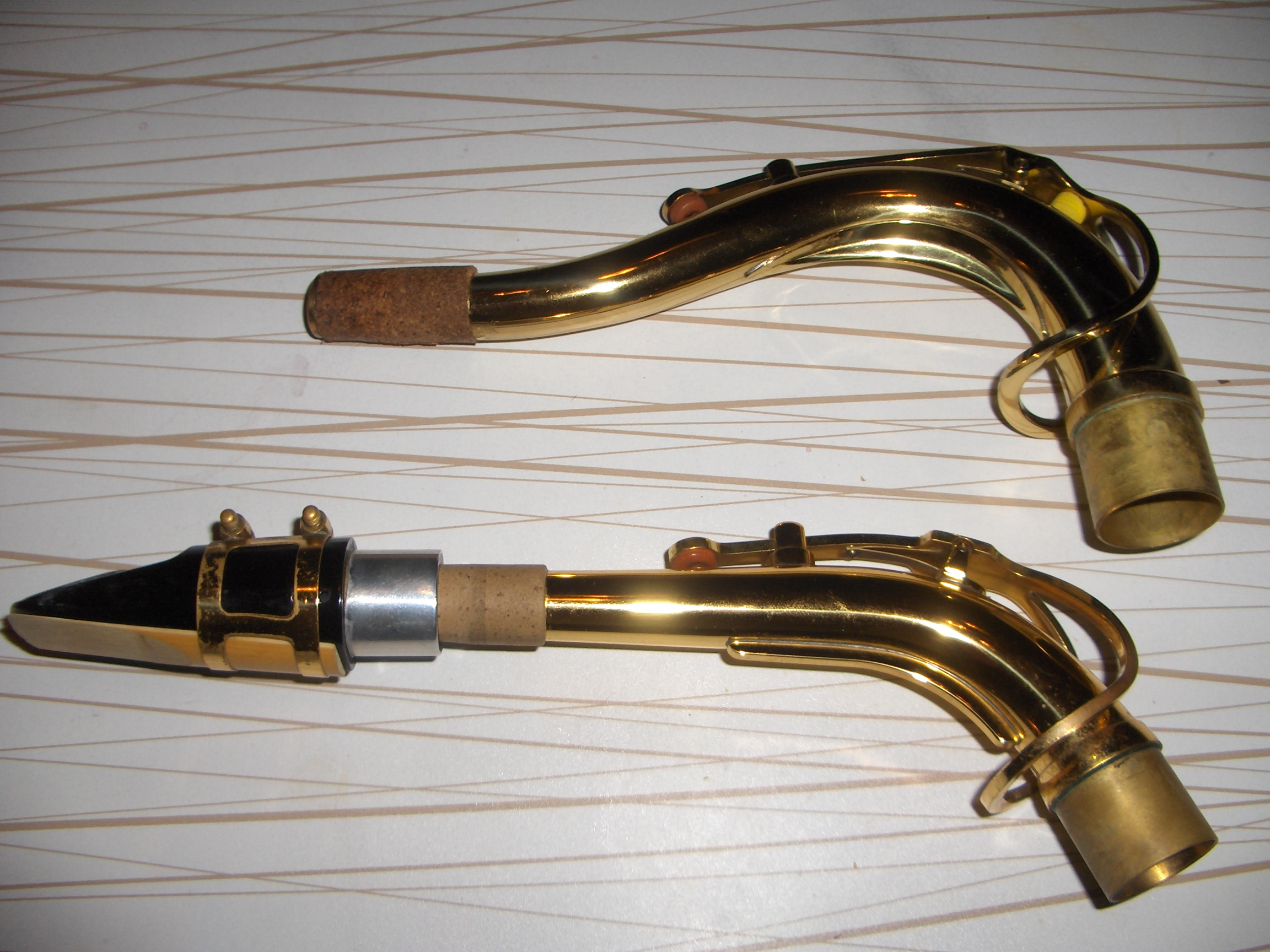 Saxophone chivers: unassembled (tenor) and assembled (alto)